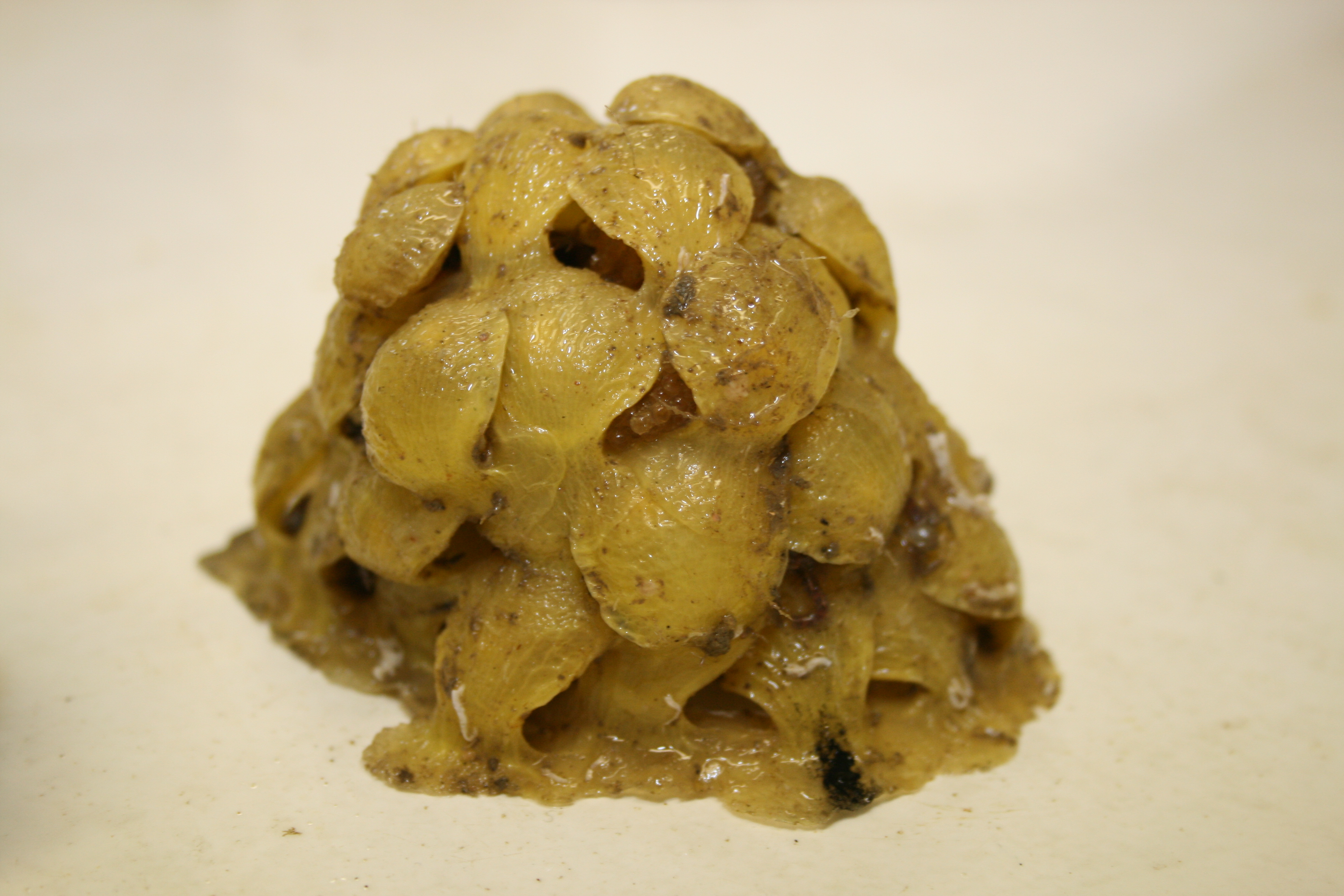 egg capsules red whelk (Neptunea antiqua)